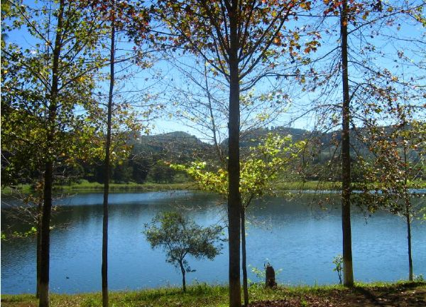 Lake Chichoj